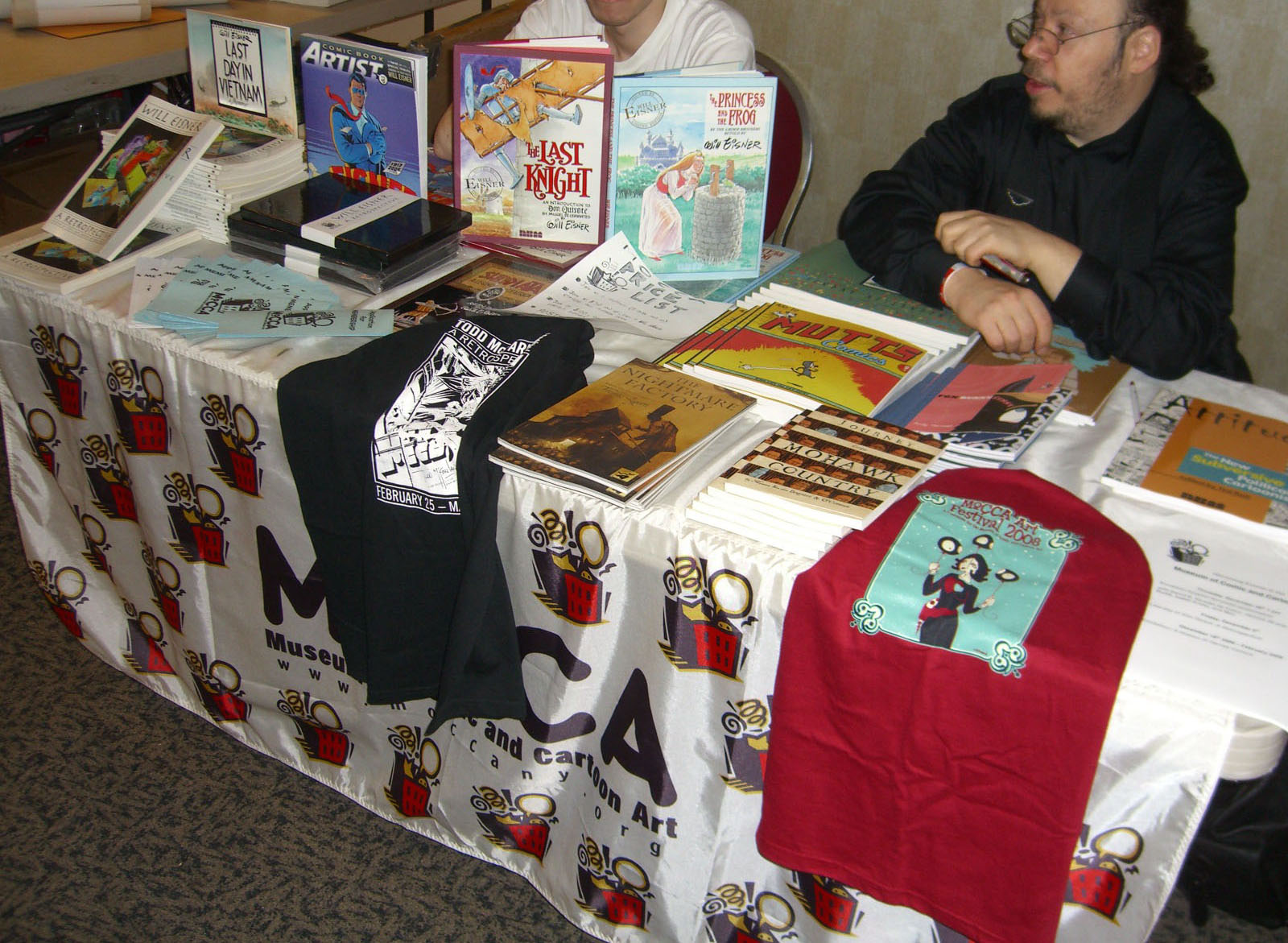 The MoCCA table at the November 2008 Big Apple Convention in Manhattan.